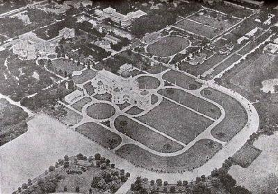 Aerial view of Dusit Palace, Bangkok Thailand, photograph circa 1940.